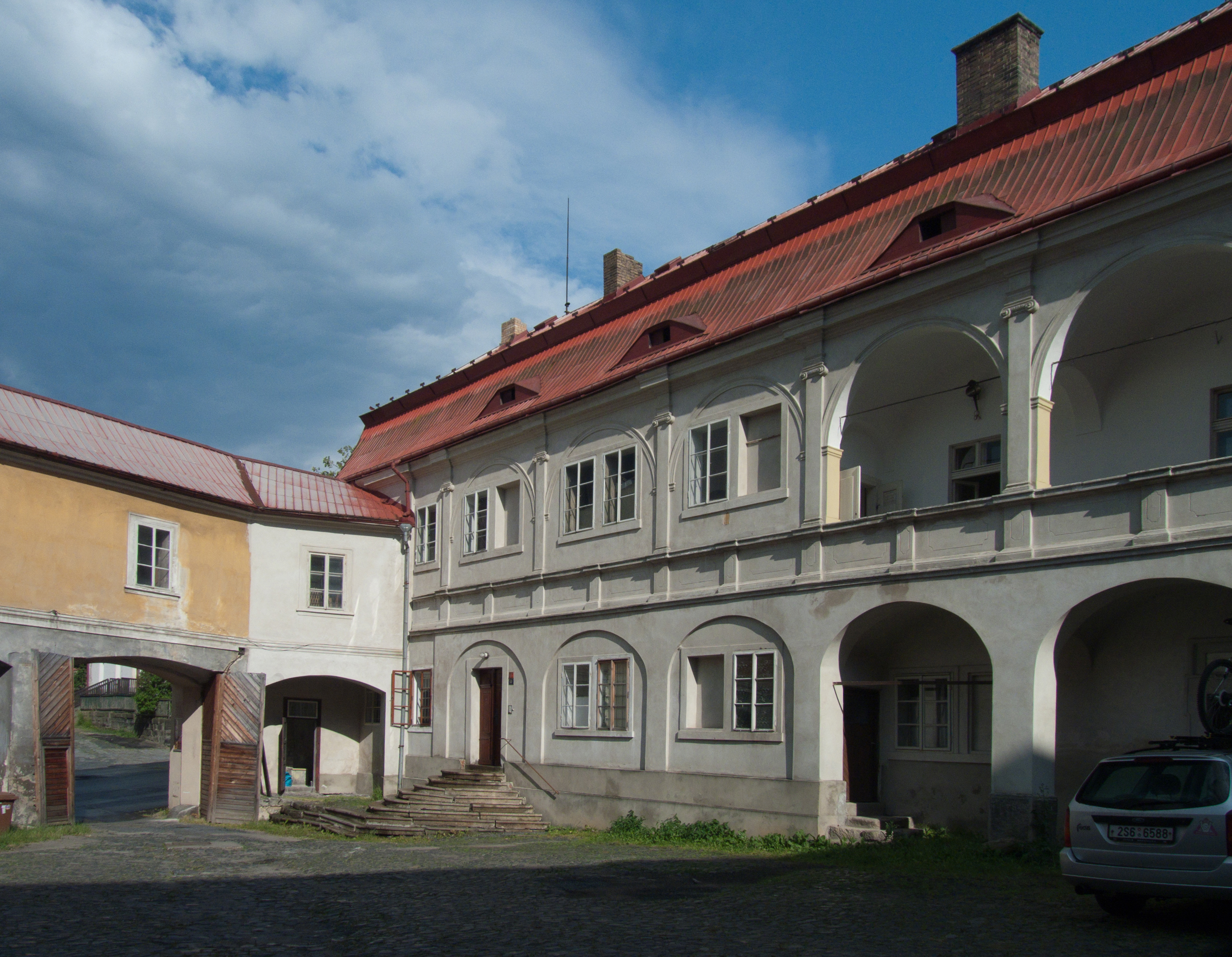 South-east part of the courtyard of the chateau in the town of Česká Kamenice, Ústí nad Labem Region, Czech Republic